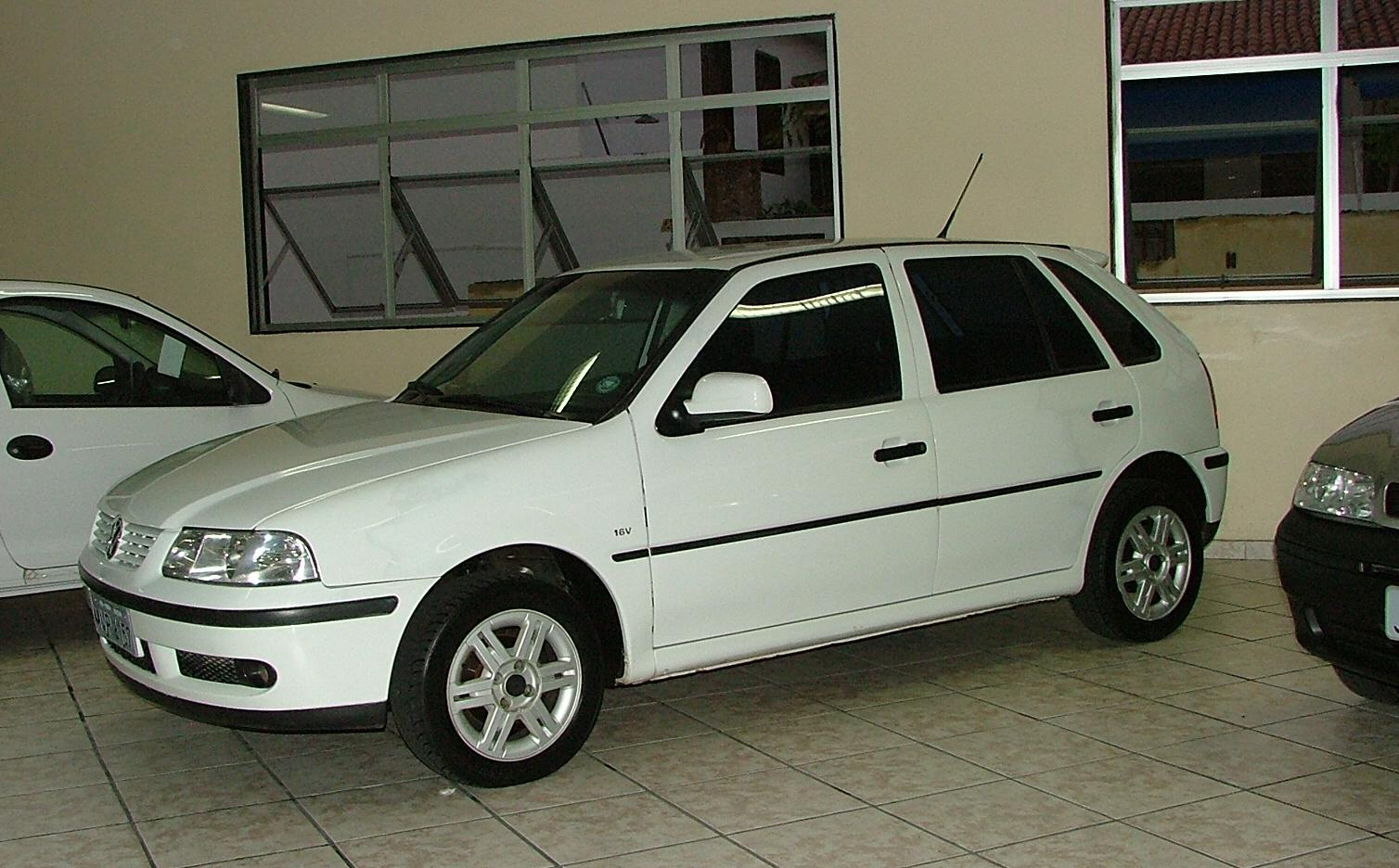 A white Volkswagen Gol. Photographed by Mário on June 12, 2005.